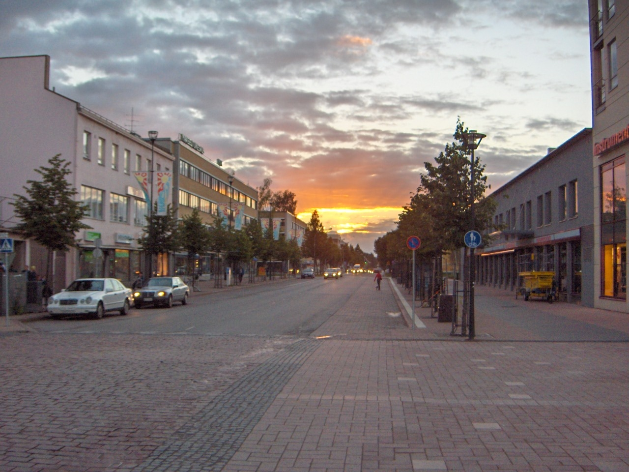 Koskikatu street in Joensuu, Finland